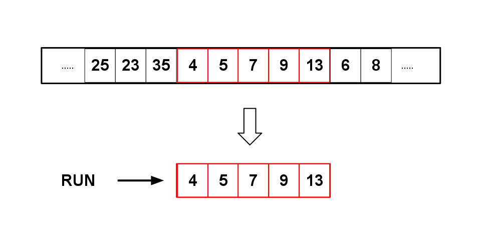 Timsort algorithm searches for such a pattern in random data, called a minrun, and performs sorting on such minruns.